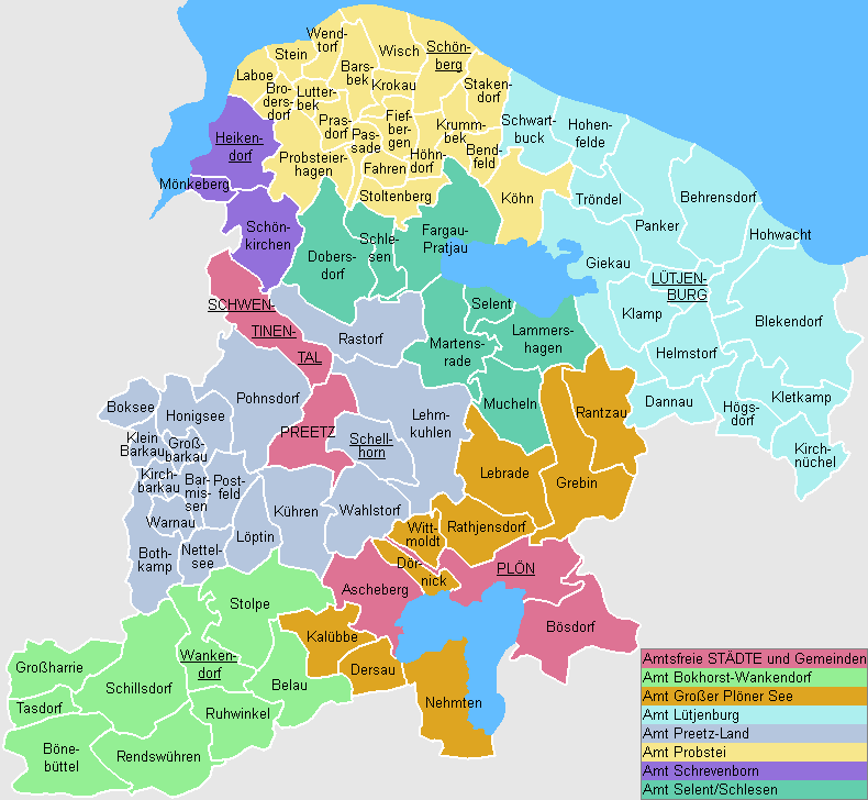 This map shows the Ämter (counties) and Gemeinden (municipalities) in the Kreis (district) Plön in Schleswig-Holstein, Germany.